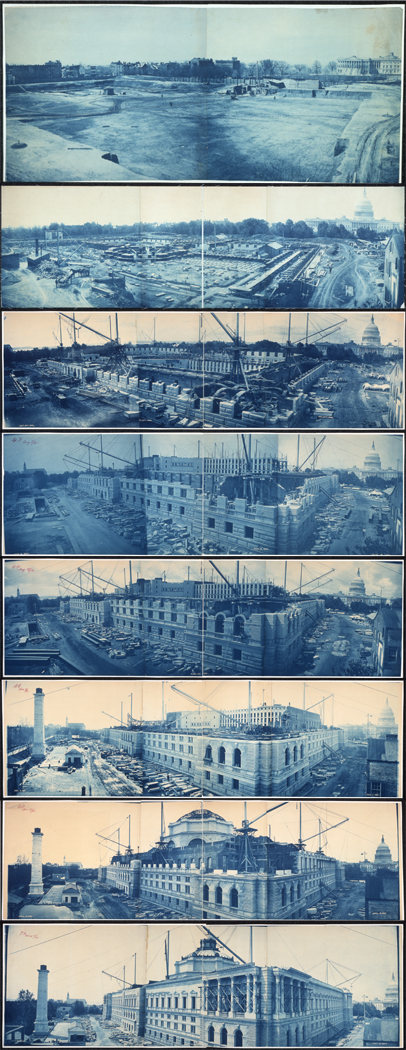 Construction of the Thomas Jefferson Building of the US Library of Congress from July 8, 1888 to May 15, 1894. Composite image assembled from LOC source images on April 12, 2006 by Jim Harper. Any copyright ownership of the composite image is hereby released to the public. Source images are identified as public domain and can be found in this collection